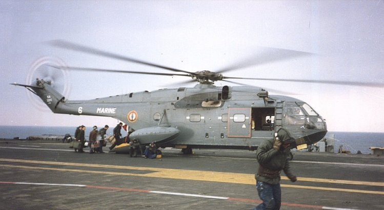 A Super Frelon helicopter on the take-off deck of the Clemenceau (1985)